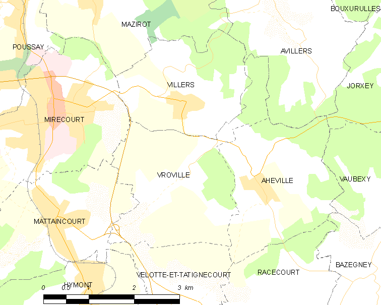 Map of French municipality Vroville